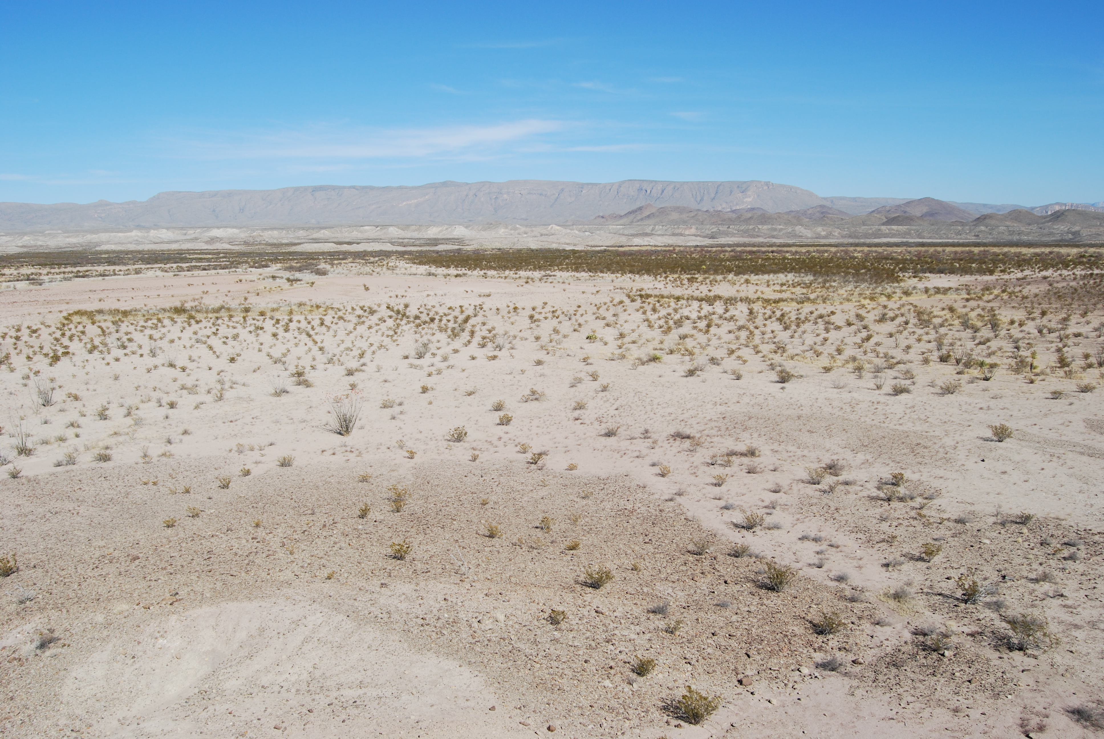 A view across the desert landscape of Big Bend National Park, Texas.